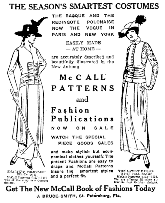 1914 advertisement for McCall Patterns featuring a redingote polonaise and a basque.